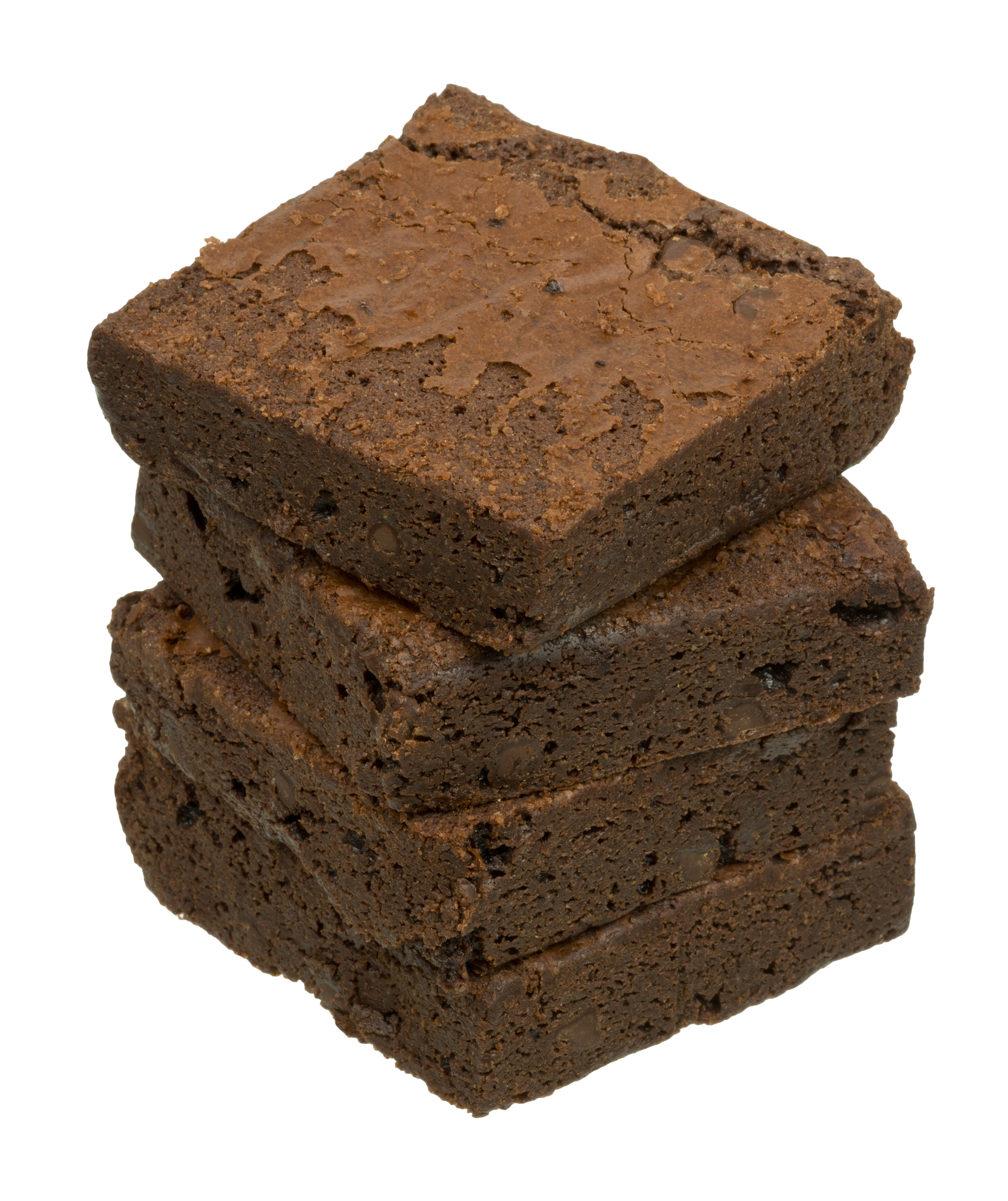 A stack of Dancing-Deer-brand brownies, bought at a supermarket in Brooklyn, NY.